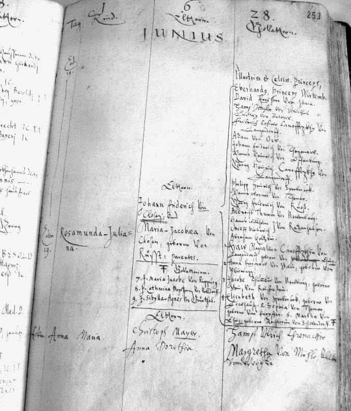 Entry of the christening of Rosamunde Juliana von Closen on 19 June 1628 in the records of Stiftskirche Tübingen (Germany)